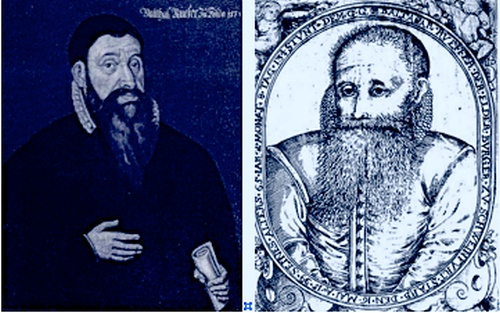 Balthasar Rüffer, 1st Mayor of Würzburg (1585/86); left 1590, right 1599